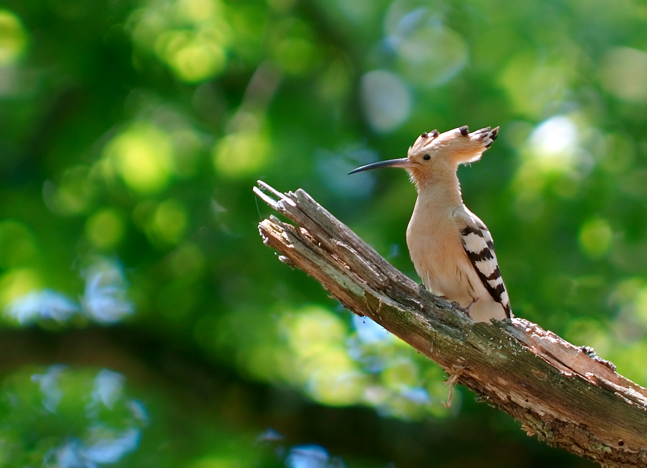 Hoopoe Upupa epops (France)